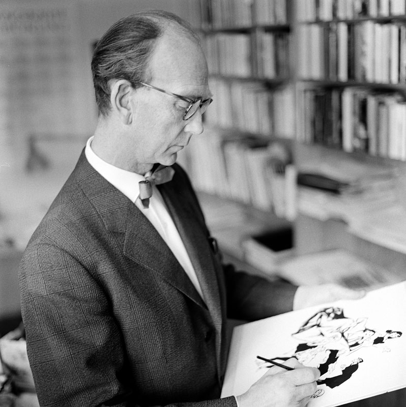 The Swedish illustrator and artist Eric Palmquist (1908-1999).